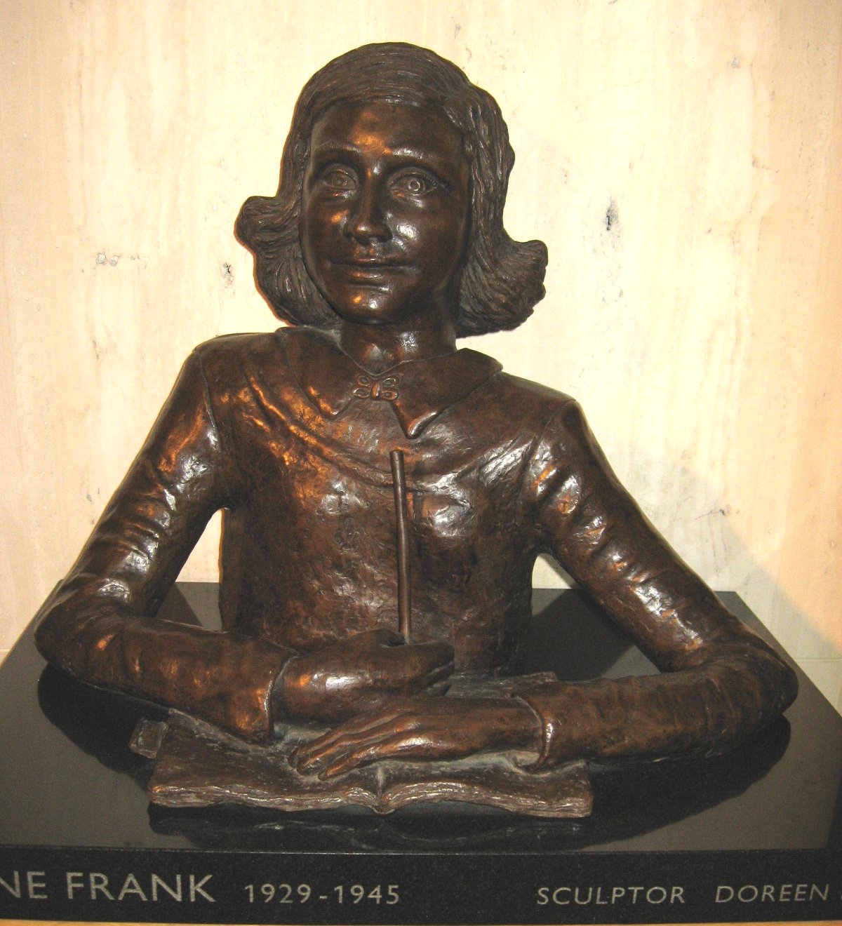 Life size bust of Anne Frank by Doreen Kern commemorating the 70th anniversary of Anne Frank's birthday - Photograph taken by me February 2 2008